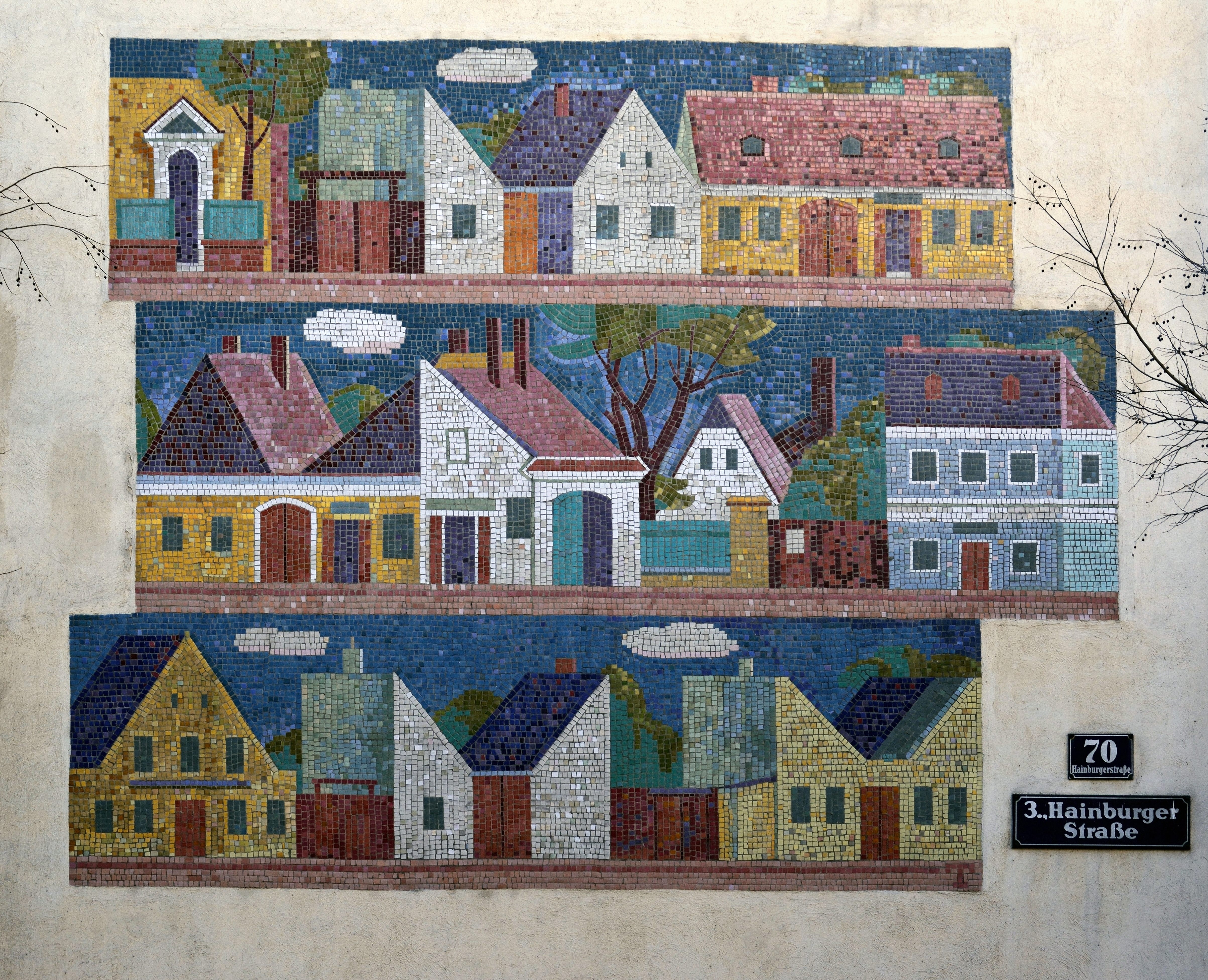 Mosaic of Otto Trubel at a community residential building, 3rd district of Vienna